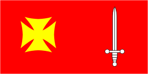 Flag of Kryčaŭ